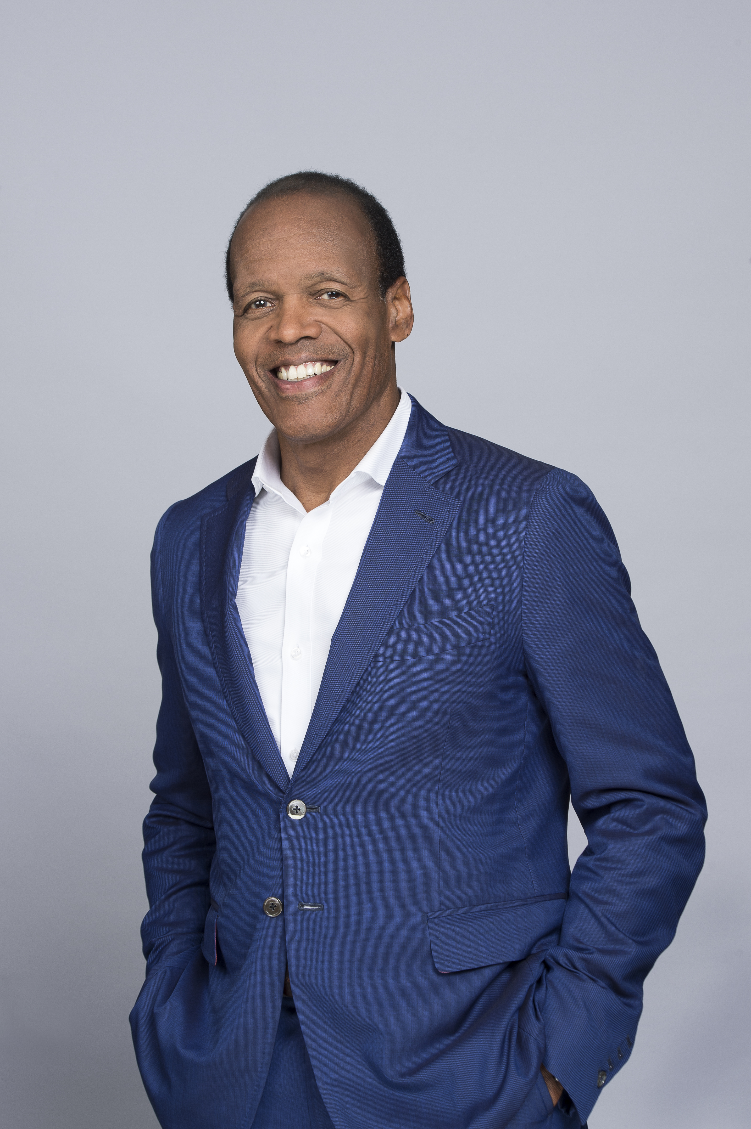 Credit: photosbyKim